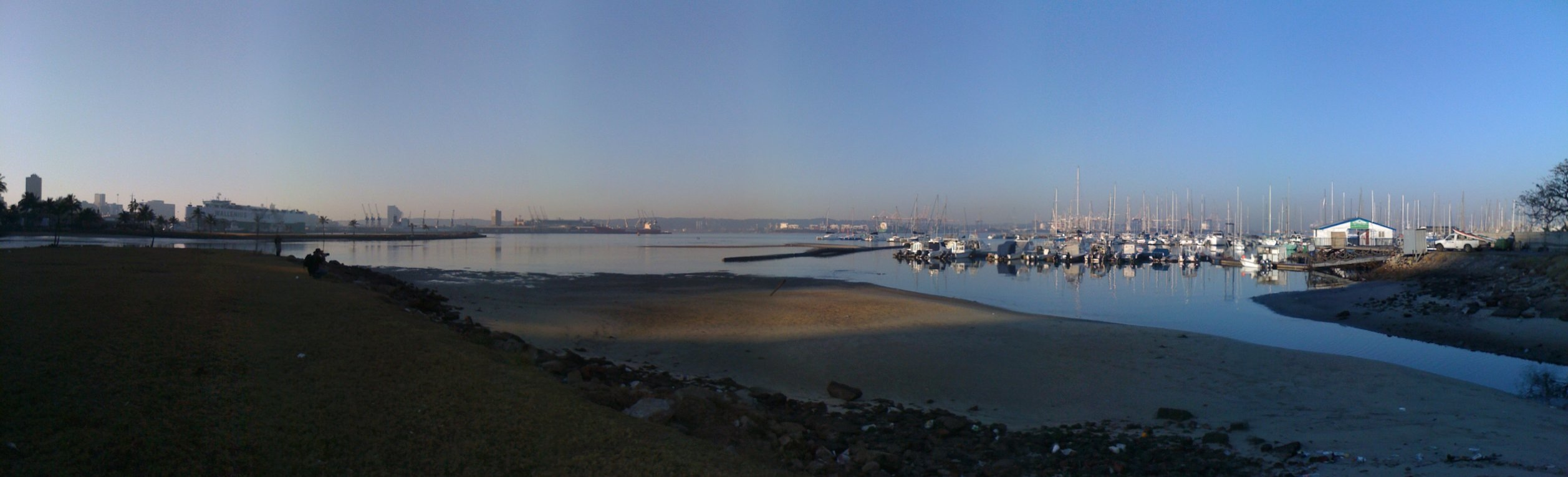 The following is the author's description of the photograph quoted directly from the photograph's Flickr page. "Taken with Pano on the iPhone on the Photowalk Best viewed in Large size "